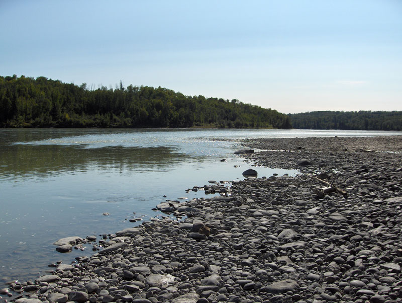 Shoreline of the Athabasca River south of Baptist Creek